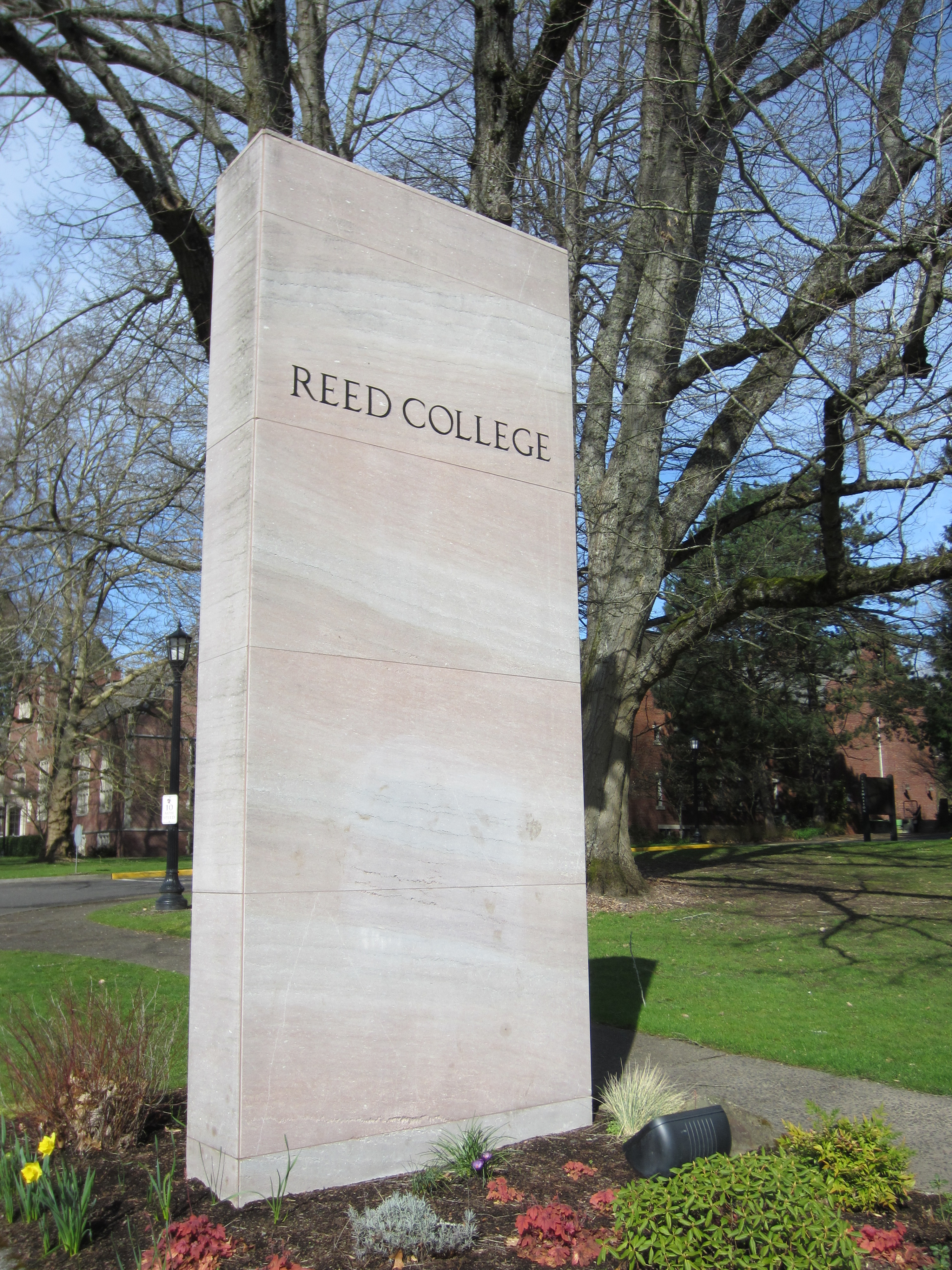 Reed College entrance, Portland, Oregon (2013)